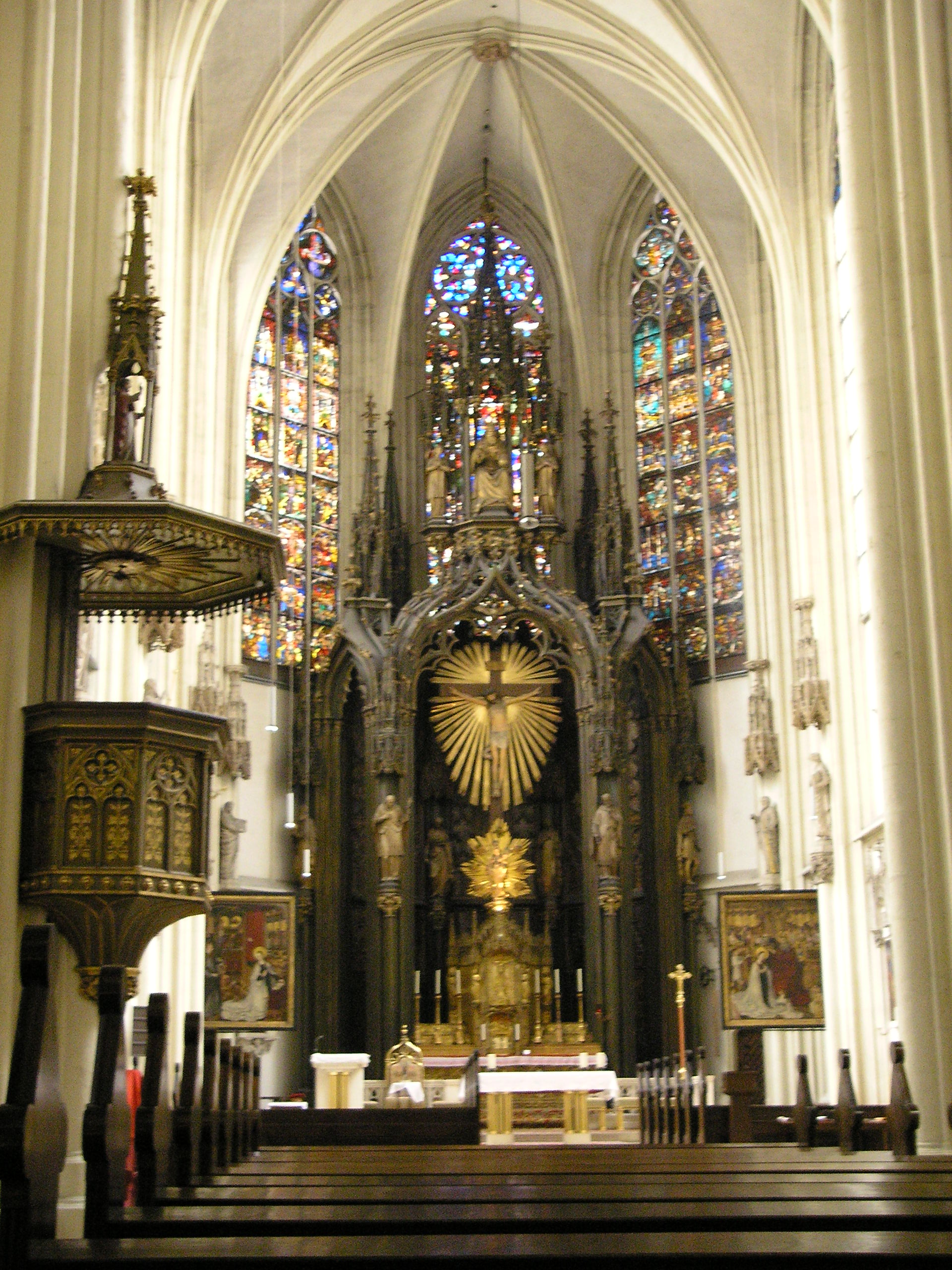 Description: Interior view of the Maria am Gestade church in Vienna. Source: self-made, I release it into the public domain. Gryffindor 15:13, 3 April 2006 (UTC)